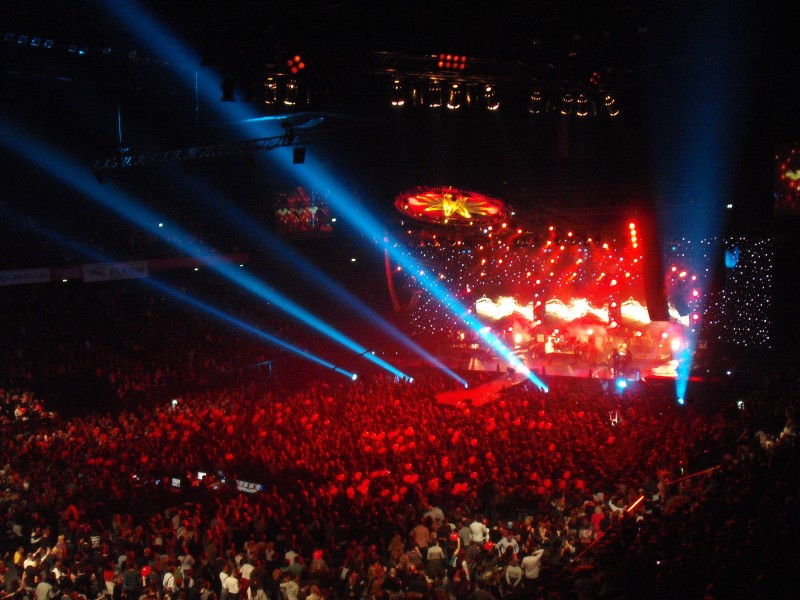 Zdravko Čolić concert - Spaladium Arena - light show